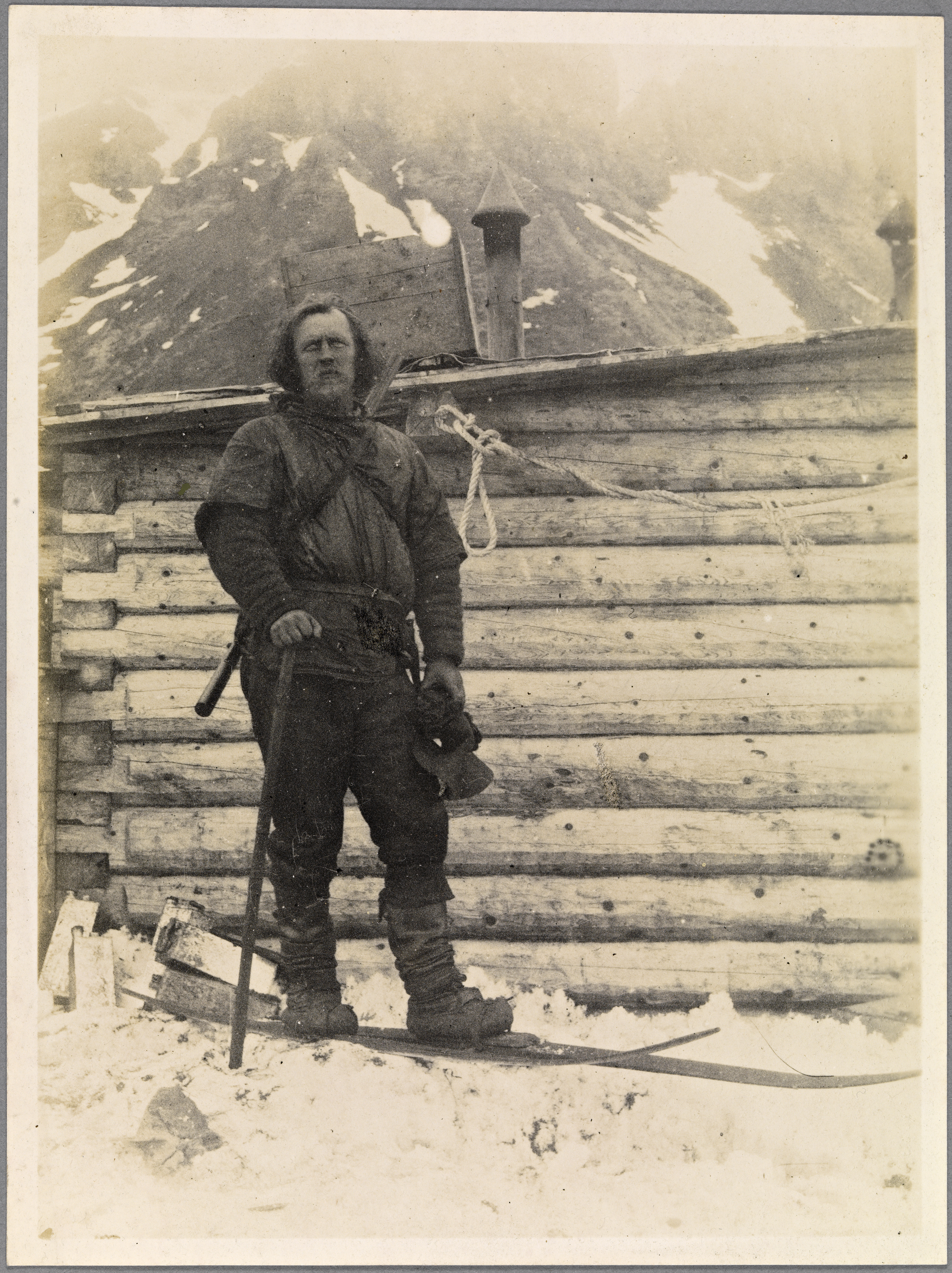 Motiv / Motif: Fridtjof Nansen på ski utenfor F. Jacksons hytte i Elmwood. Slik så han ut da han uventet traff F. Jackson den første dagen. Her har Nansen fremdeles det lange håret og skjegg. Ett av bildene fra ekspedisjonen med polarskipet Fram mot Nordpolen i perioden 24 juni 1893 til 13 august 1896. Etter planen skulle skipet drive i isen med havstrømmer fra Sibirkysten over Nordpolen mot Grønland. I mars 1895 foretok Fridtjof Nansen sammen med en ledsager en hasardiøs skiferd med hundesleder i forsøket på å komme til polpunktet. Dato / Date: 17. juni 1896 Fotograf / Photographer: Frederick Jackson (1860-1938) Sted / Place: Russland, Frans Josefs Land, Kap Flora Eier / Owner Institution: Nasjonalbiblioteket / National Library of Norway Lenke / Link: Bildesignatur / Image Number: bldsa_3c110